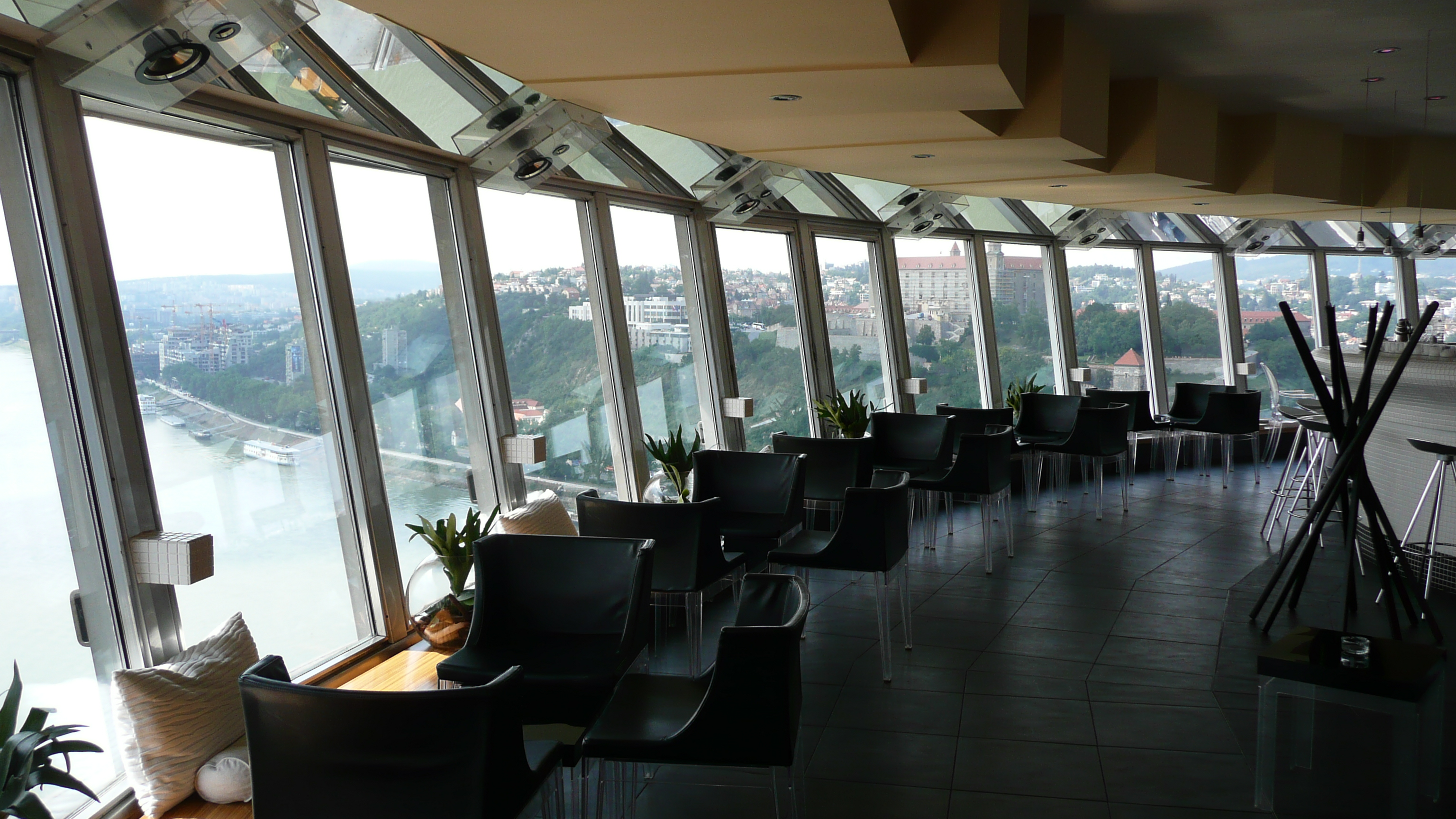 Restaurant on New bridge in Bratislava, Slovakia